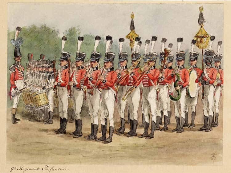 The band of the 9th Infantry Regiment of the Netherlands Army